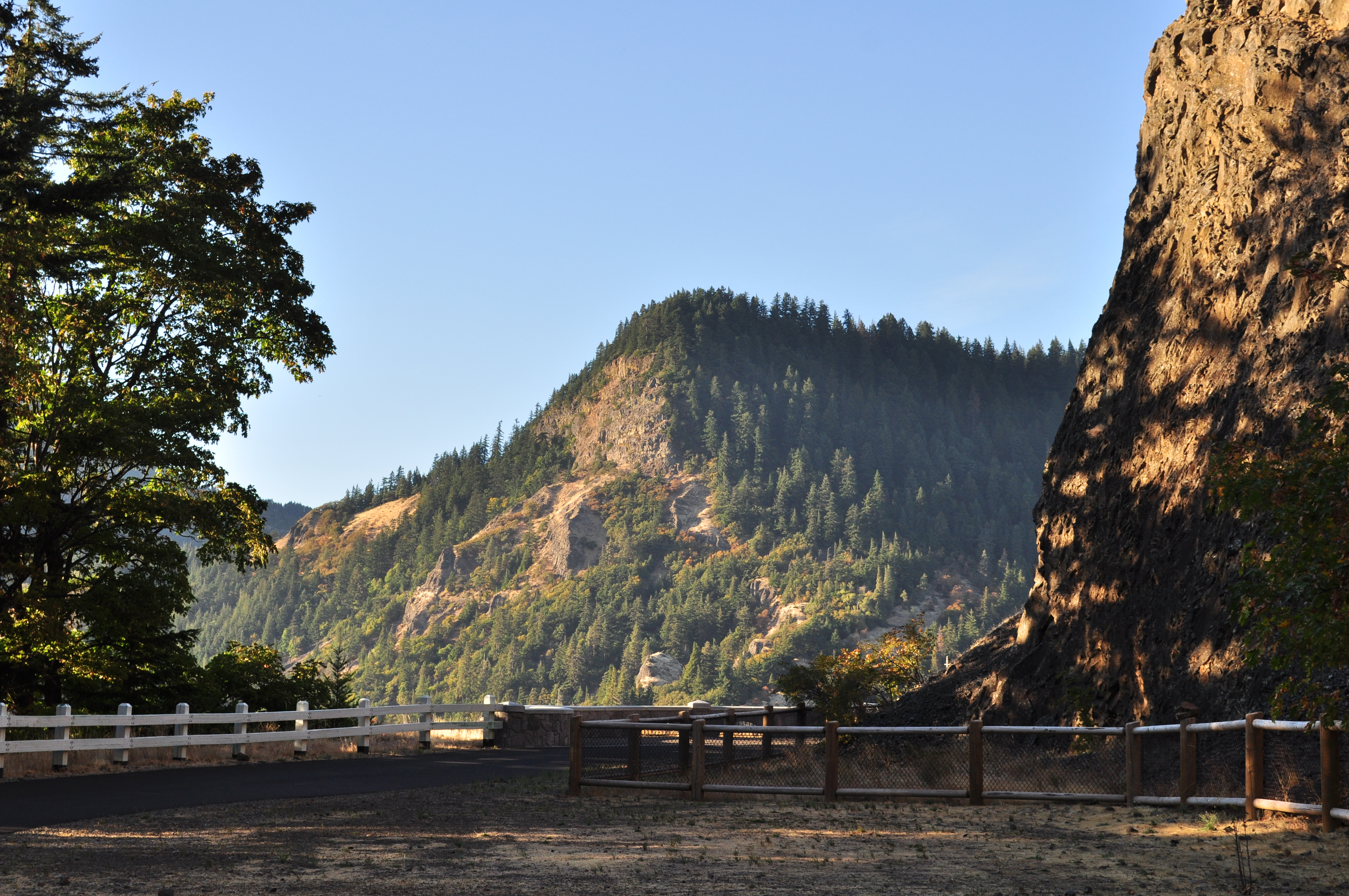 Looking across the Columbia River (not visible here) from Mitchell Point Overlook (Hood River County, Oregon).